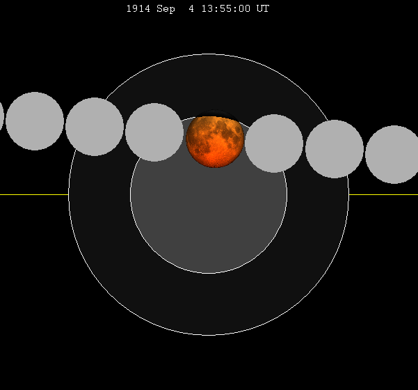 =lunar eclipse chart of moon's path through the earth's shadow. thumb